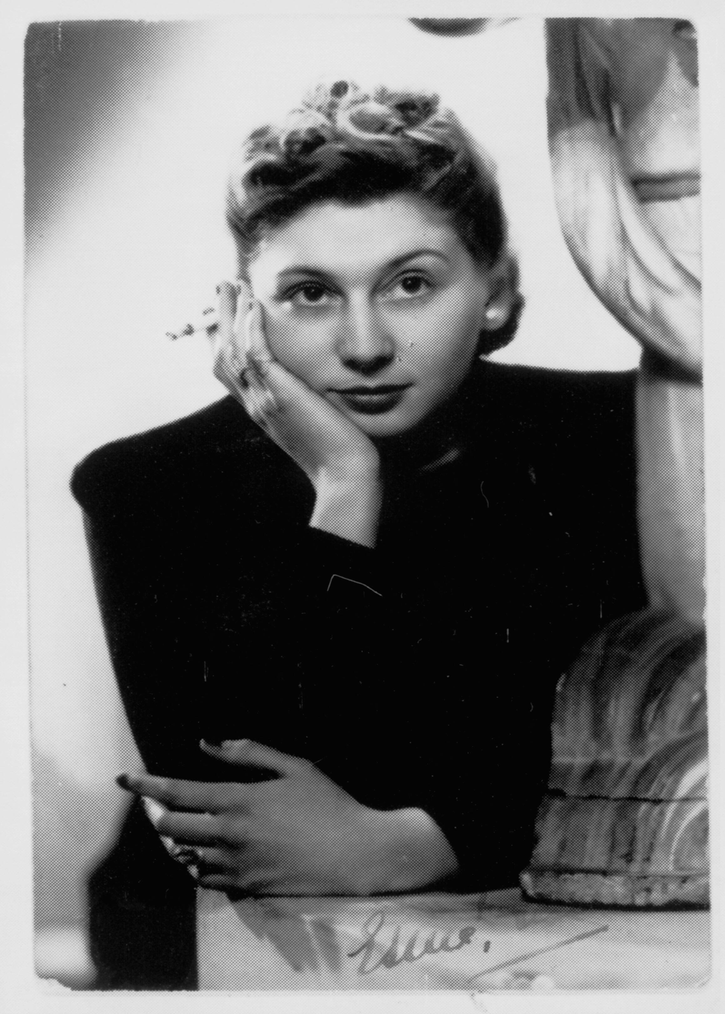 Esmée Adrienne van Eeghen (1918-1944), Dutch resistance in WW II. Photo ca. 1940 (?)